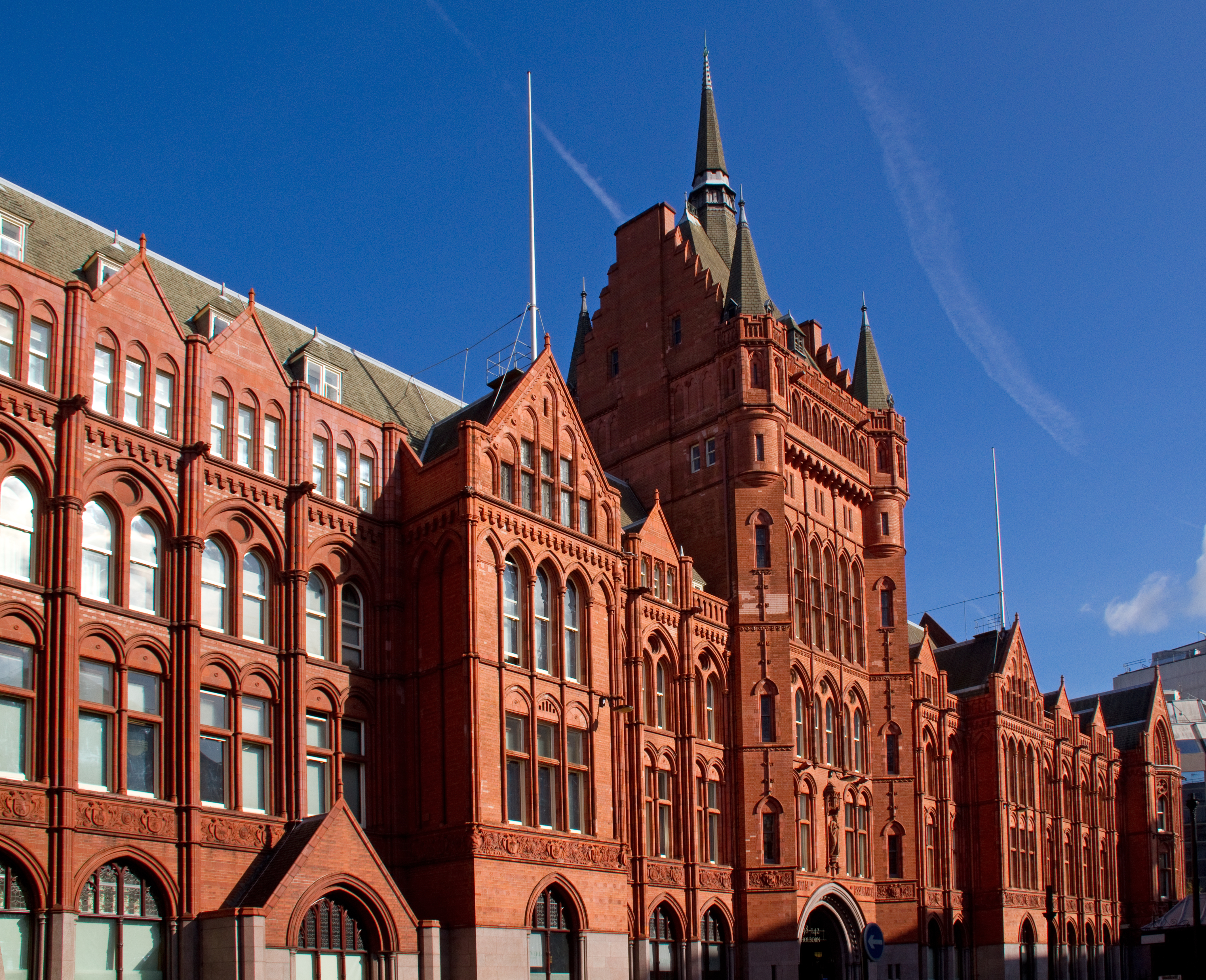 Gothic Revival style office block. Built 1885-1901 in several phases, by Alfred Waterhouse assisted by his son Paul.